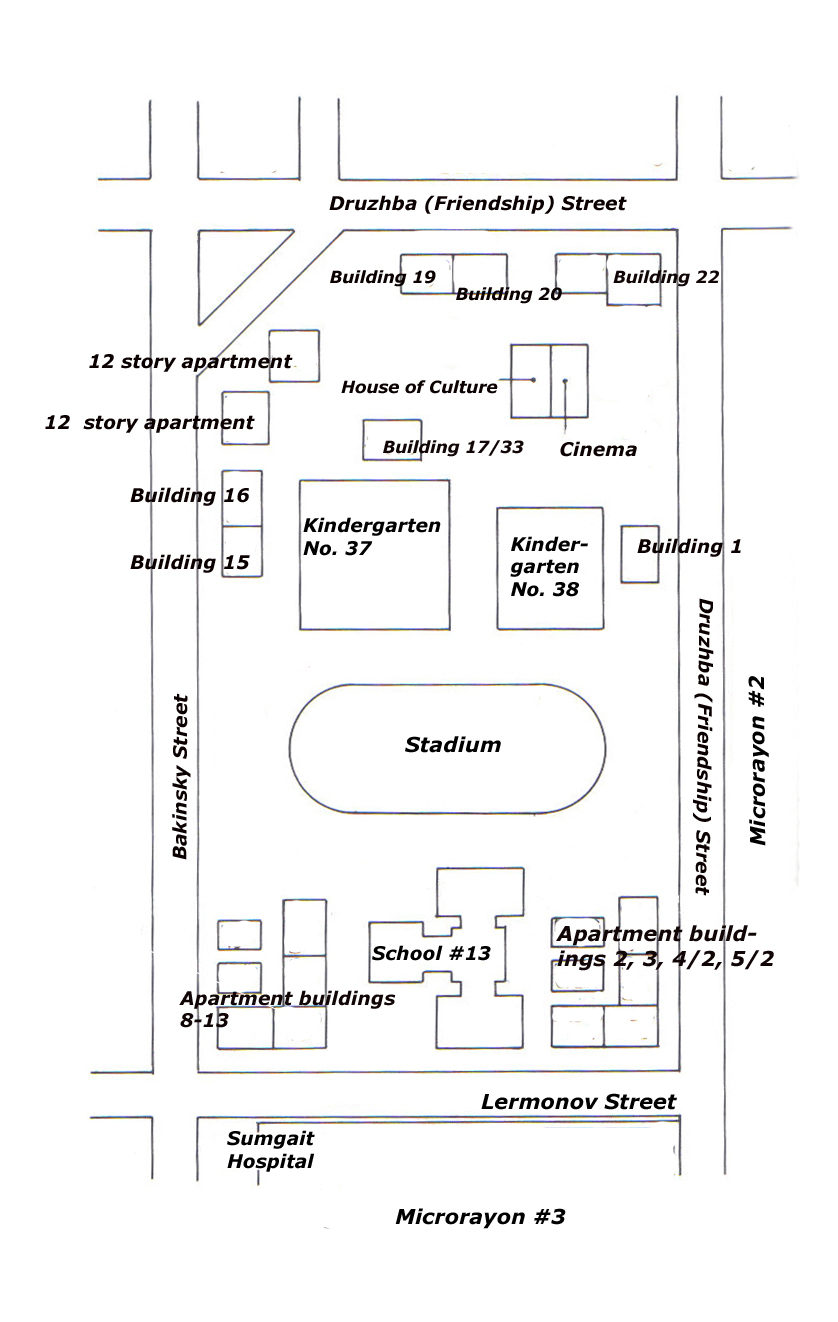 Map of Sumgait as illustrated in Shahmuratian, "Sumgait Tragedy"